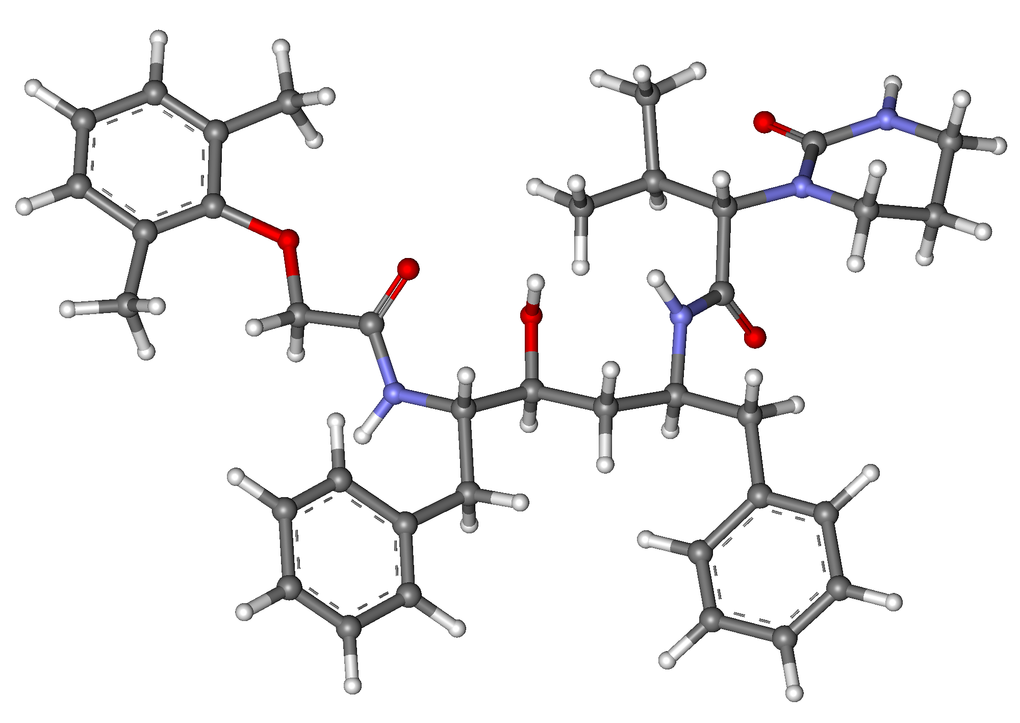 Ball-and-stick model of lopinavir molecule. The structure is taken from ChemSpider. ID 83706